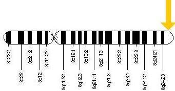 locus